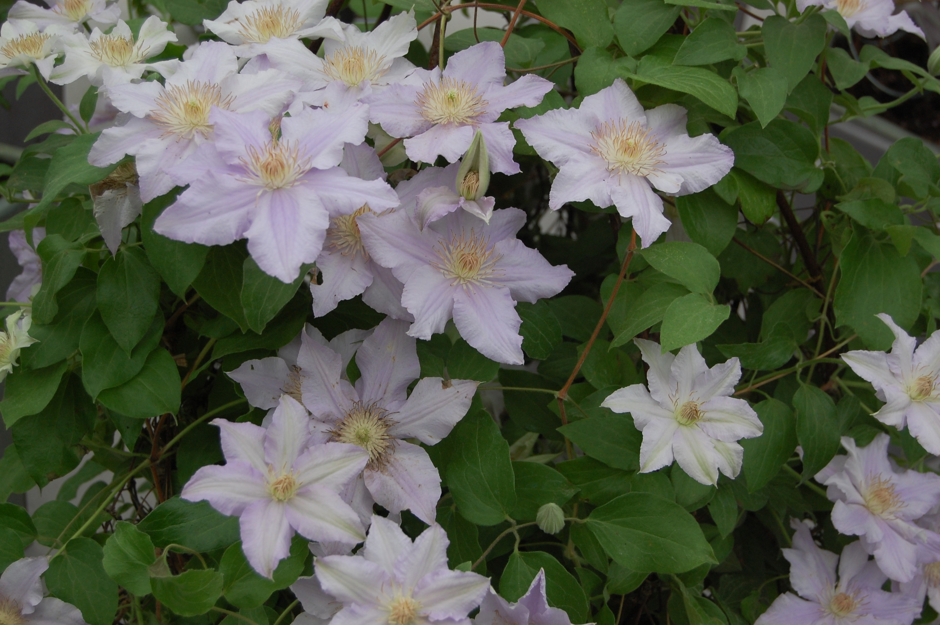 Clematis 'Angelique', displayed at Gardeners' World Live.